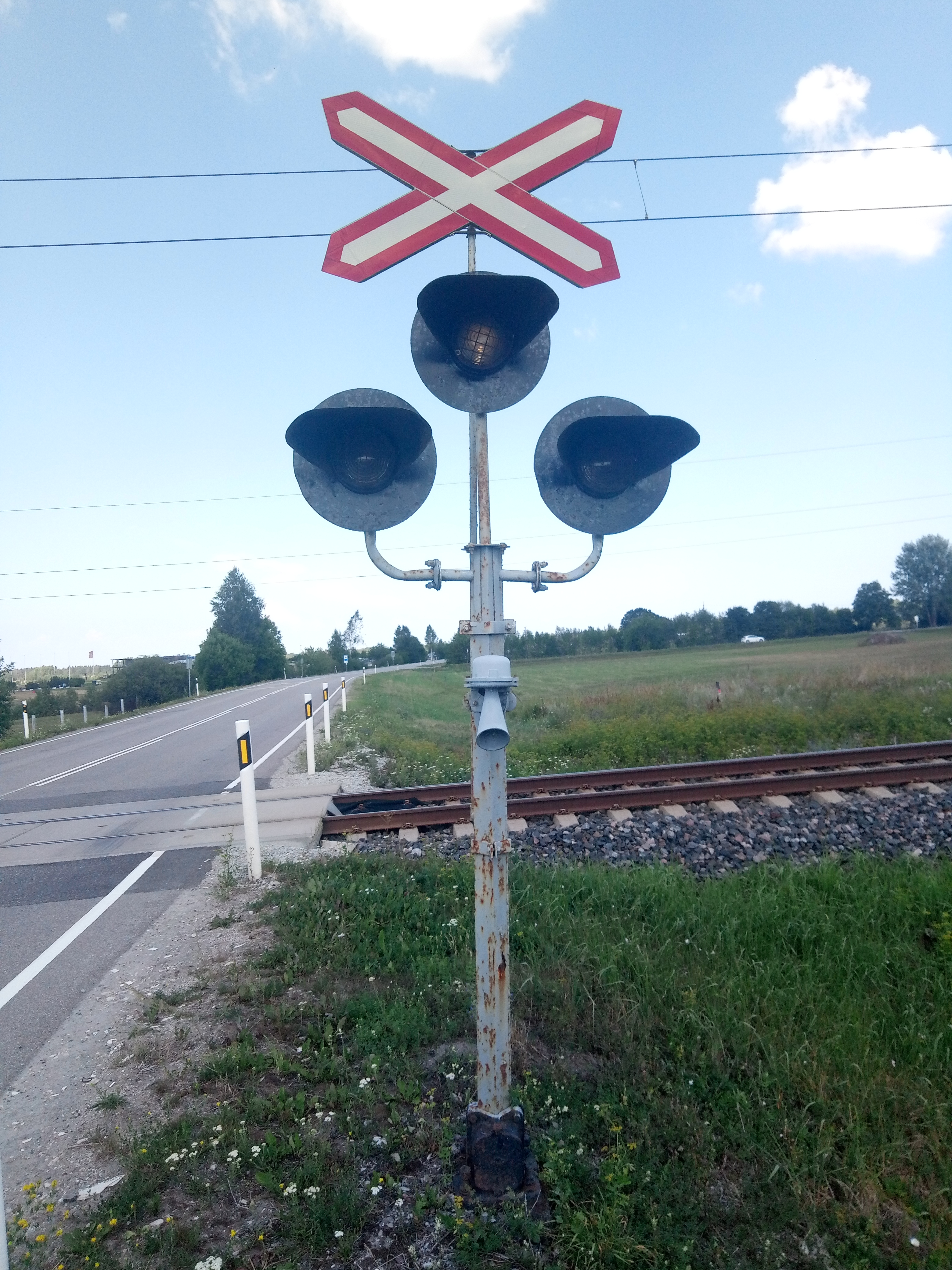 One of the few surviving USSR signals located in Niitvälja, Estonia.